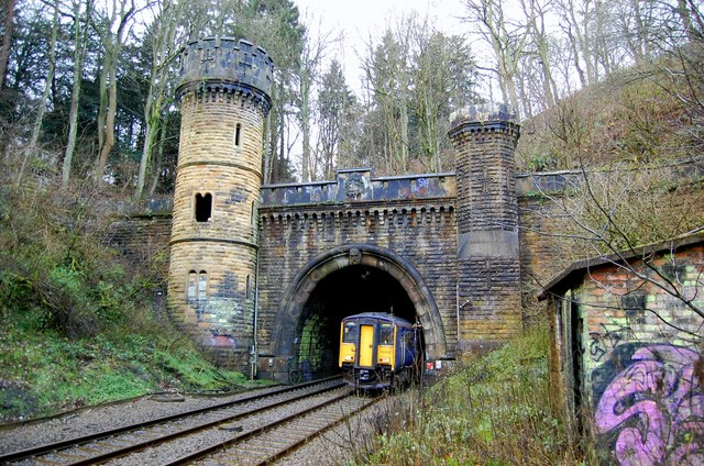 Bramhope north portal detail, Bramhope, West Yorkshire, England. Bramhope tunnel's fantastic north portal was built to appease the rich landowner and gain his approval for the construction of this 2mile 243yd long tunnel linking Leeds with Harrogate. The North Eastern railway started construction in 1845 and was completed in 1849 with 23 men killed. A replica of the tunnel portal stands in Otley churchyard to remember the men who lost their lives.